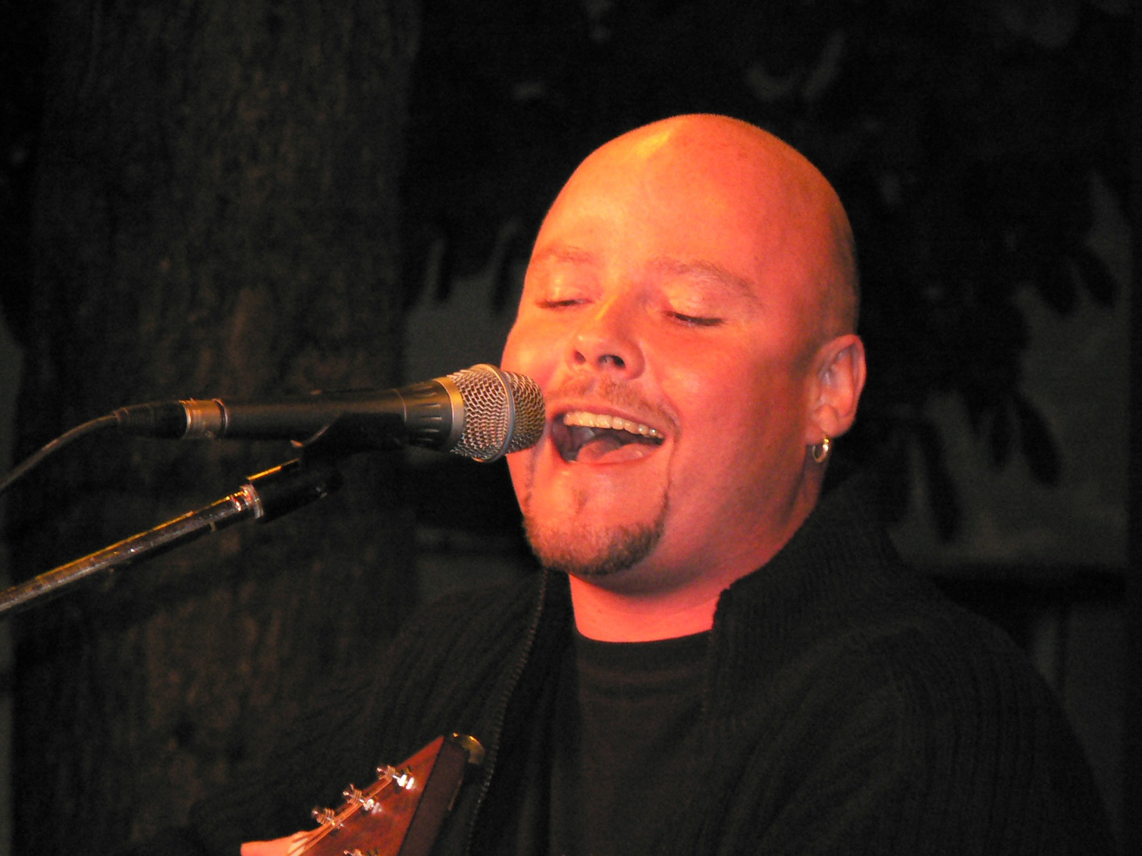 Jamie Winchester 2007